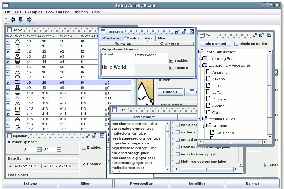 GC Swing Demo